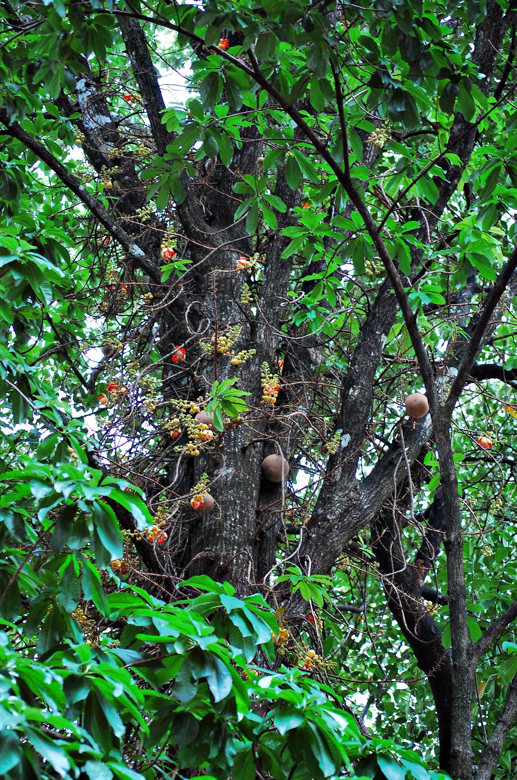 Couroupita guianensis shot from Trichur Zoo, Kerala India. for illustration purposes